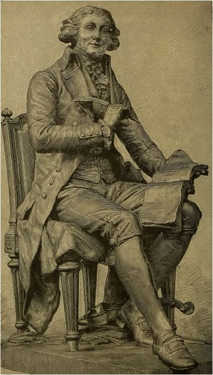 Reproduction of a lithograph showing the statue of Nicolas Dalayrac to Muret. The composer sits. He seeks inspiration during composition He take book in one hand and pen in the other, at his feet are a violin and bow. N.B. : The book is from 1890 so relies on the bronze made ​​in 1877 by Gustave Saint-Jean and placed at one end of the avenue Niel.